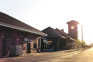 Train station in Fargo, North Dakota, United States